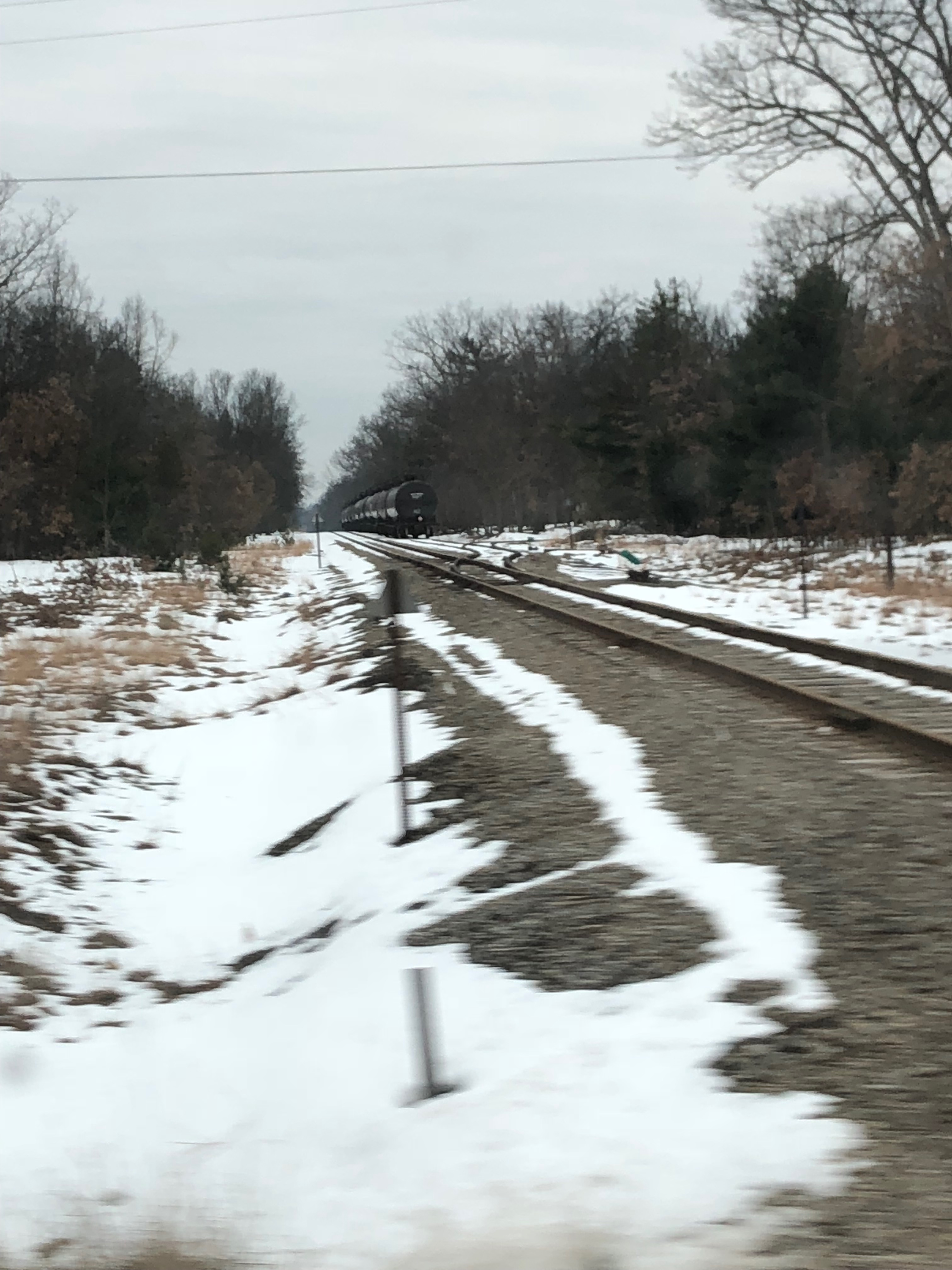 Walton Junction, Walton, Grand Traverse County, Michigan